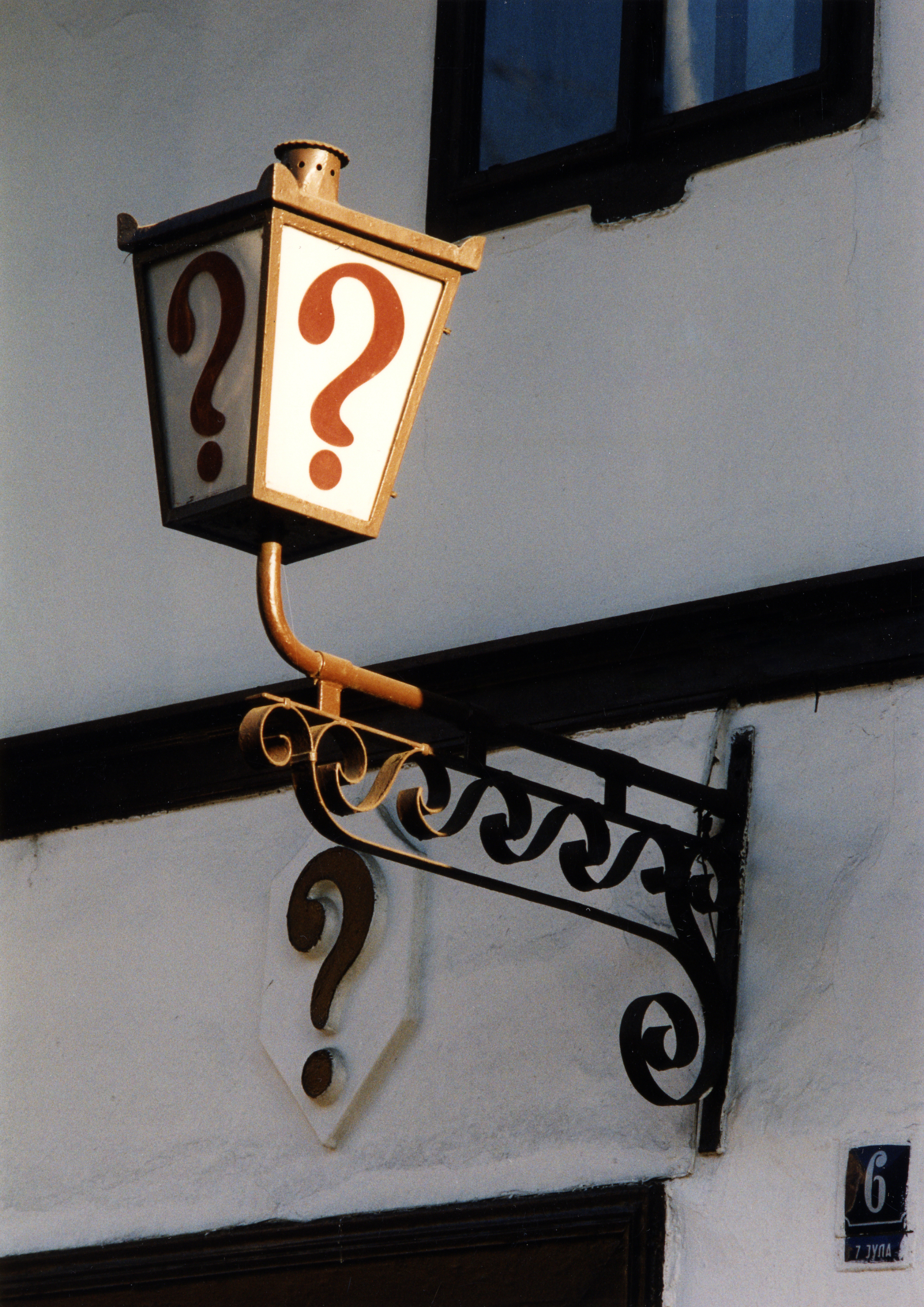 Znak pitanja tavern, Belgrade